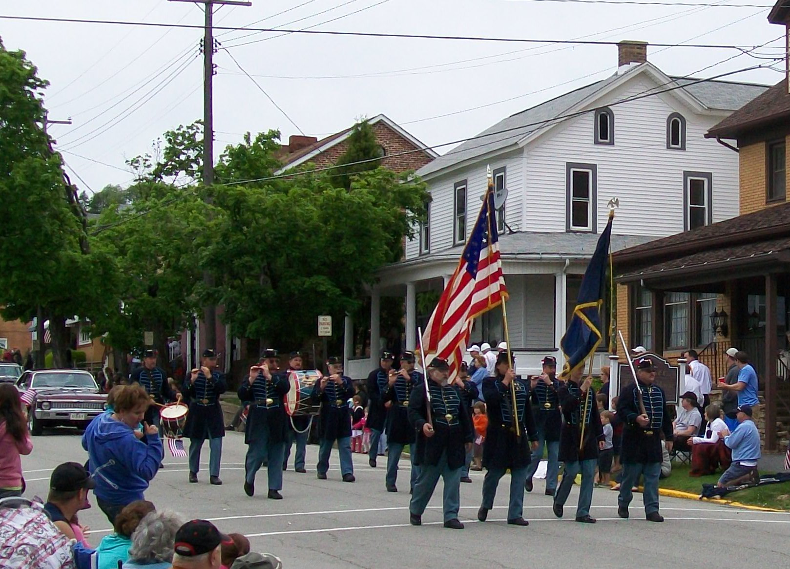 Stoystown Historic District, Roughly bounded by West and East Forbes Roads, East Main Street, Meadow Street, East Penn Avenue, South Sommerset Street, West Penn Avenue and West Main Street Stoystown